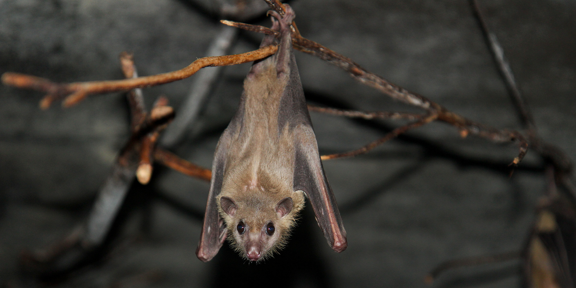 Lithuanian Zoological Gardens